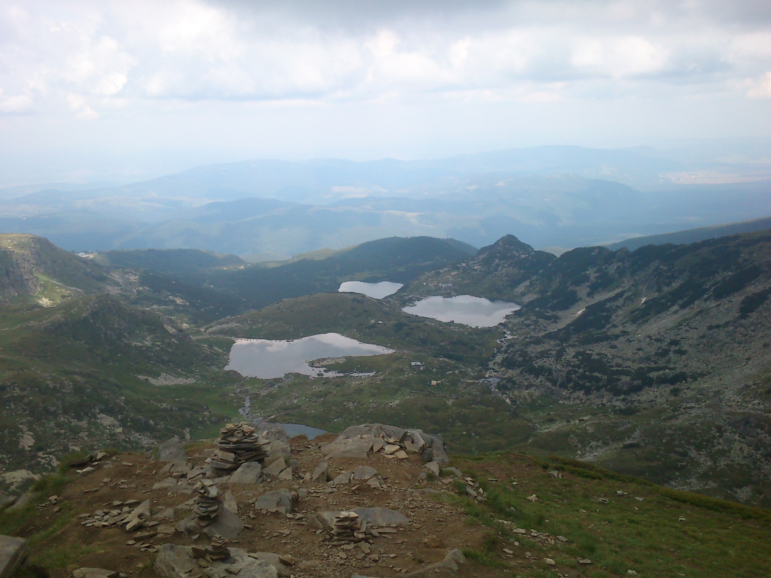 Rila Lakes, Rila, Bulgaria